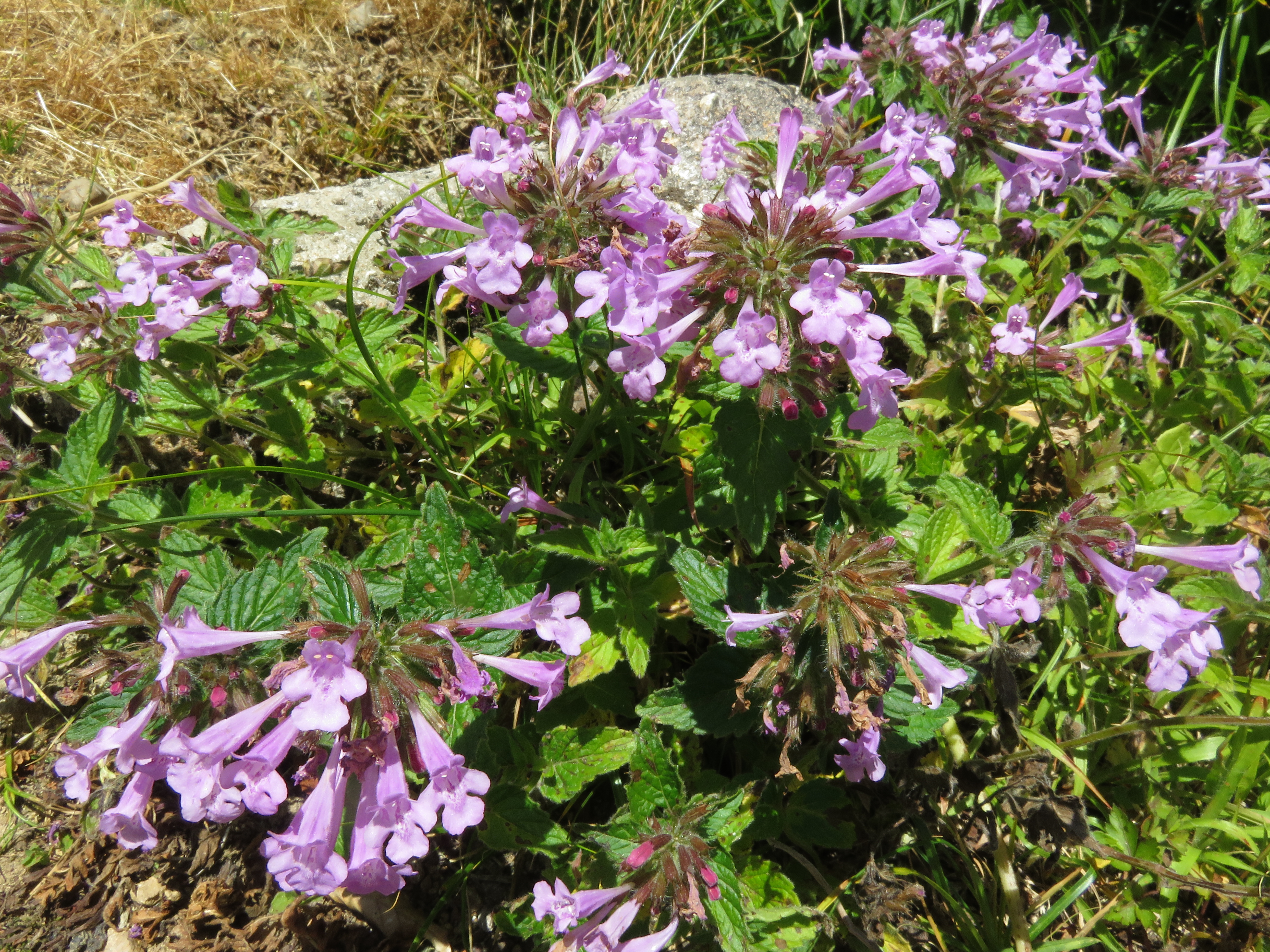 Clinopodium macranthum, Mount Iide, Fukushima pref., Japan